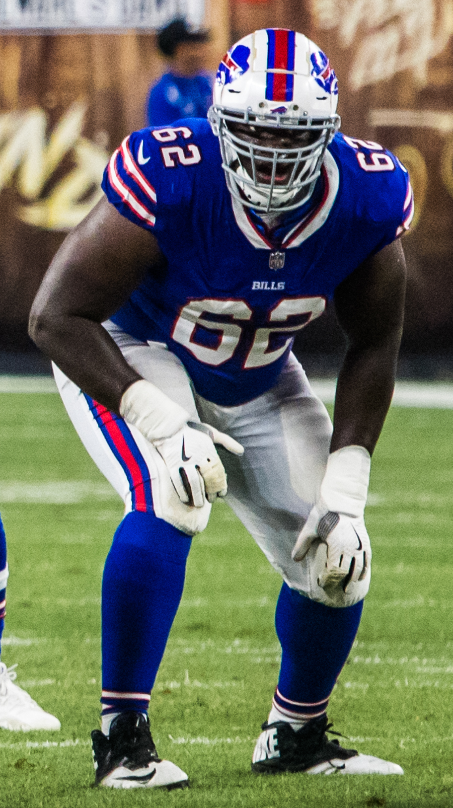 Josh Allen